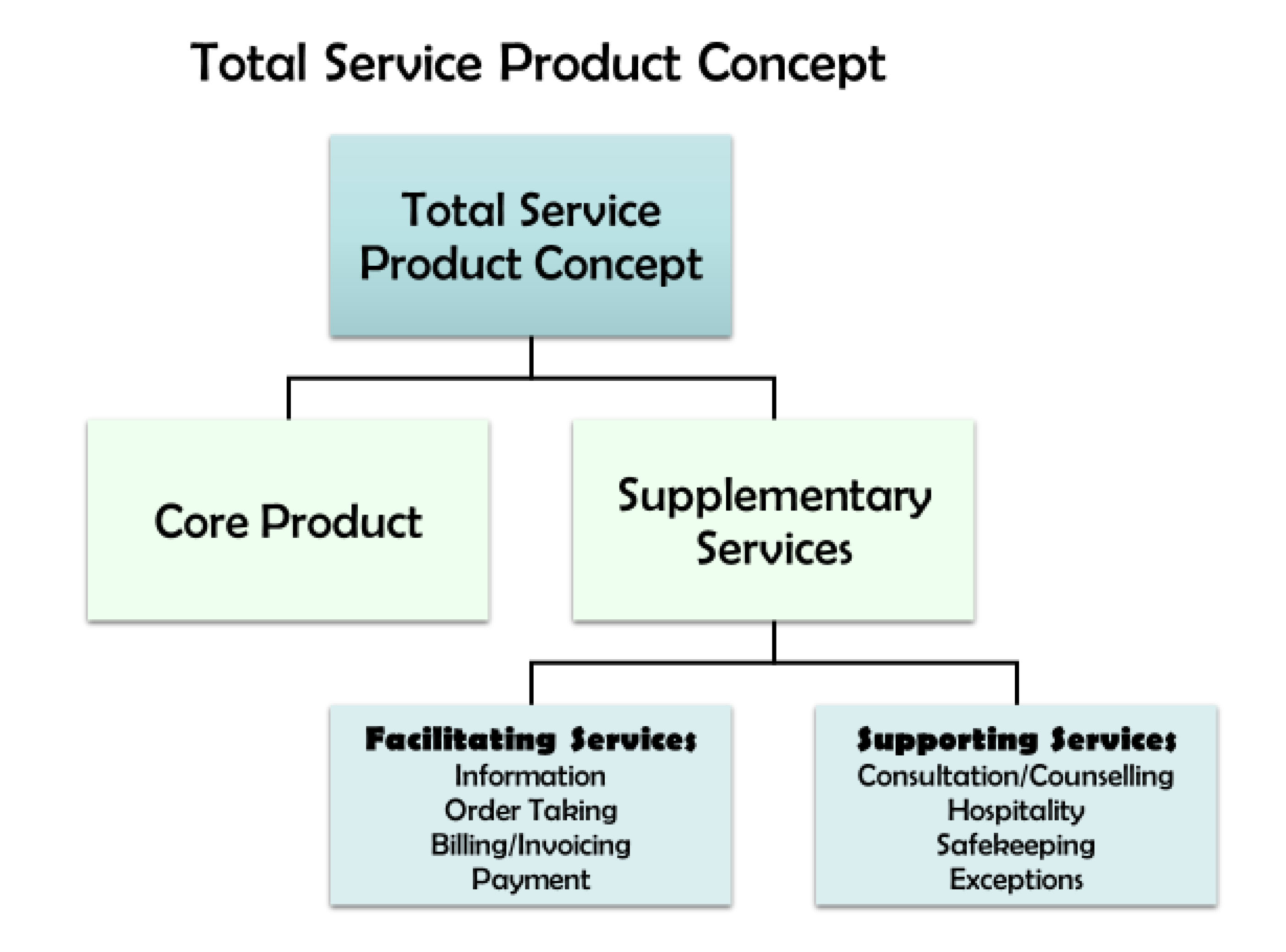 image based on concepts in basic text books; file previously uploaded as PDF; this is a jpg to replace former version